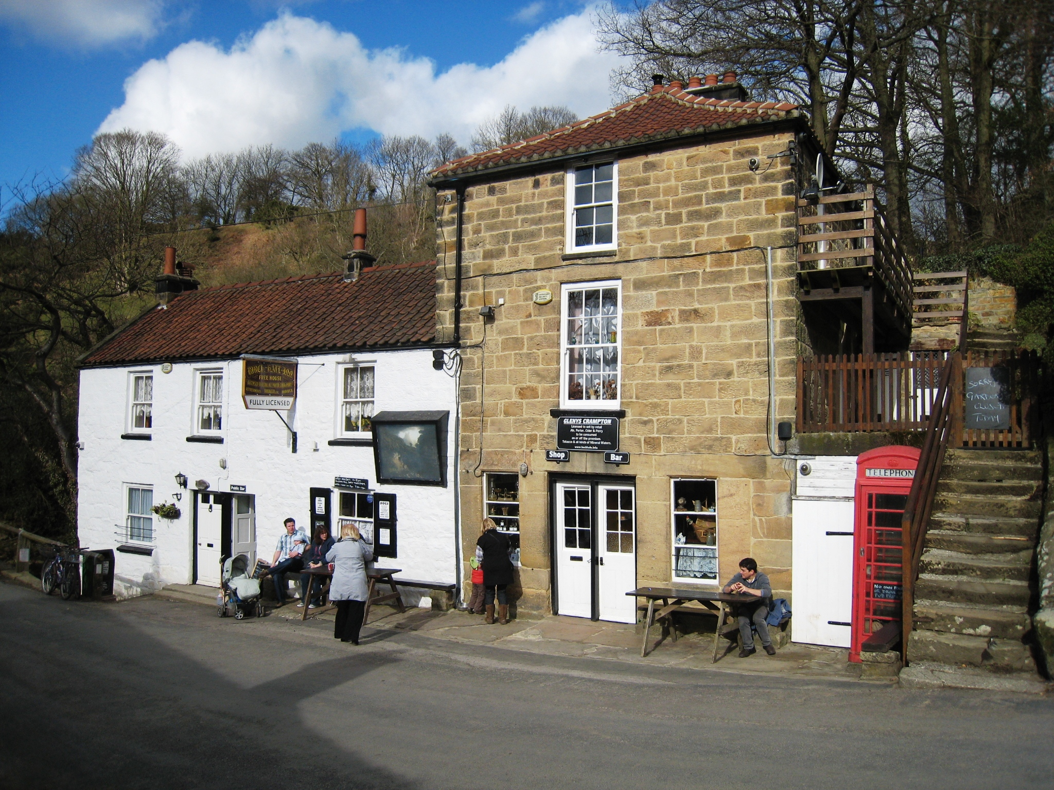 Inn at Beck Hole This photograph shows a view of the Birch Hall Inn at Beck Hole. The picture was taken from the public footpath opposite the inn looking in a north-north-easterly direction towards Hollin Garth.